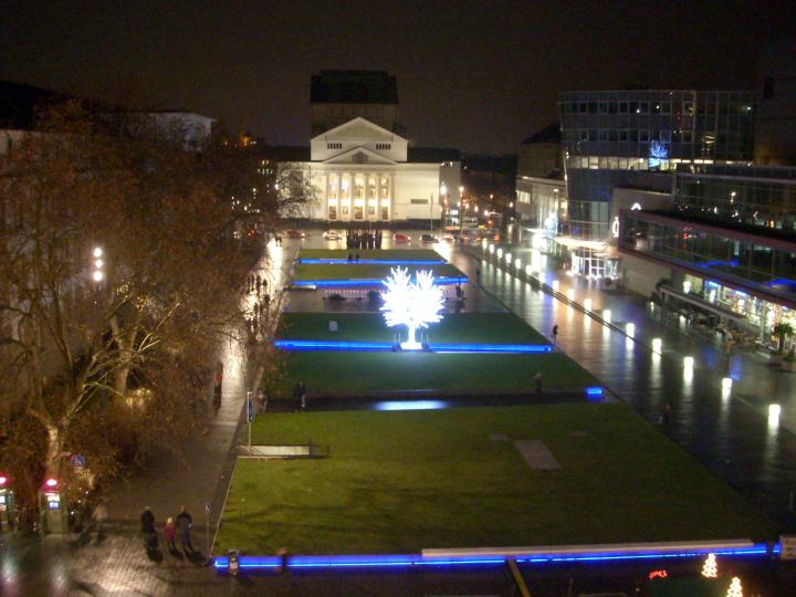 König-Heinrich-Platz during the festive season with courthouse (left), theater (middle) and CityPalais (right), Duisburg (Germany)